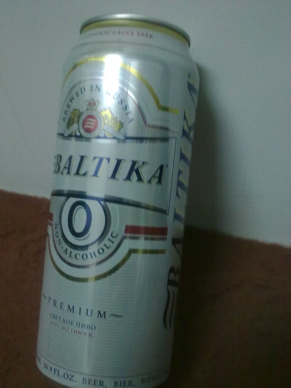 Baltika non alcoholic beer in Iran.